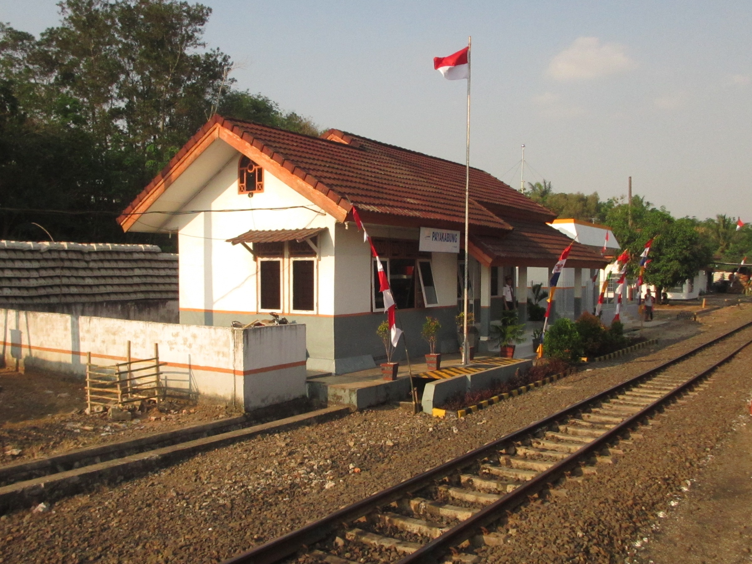 Payakabung Railway Station